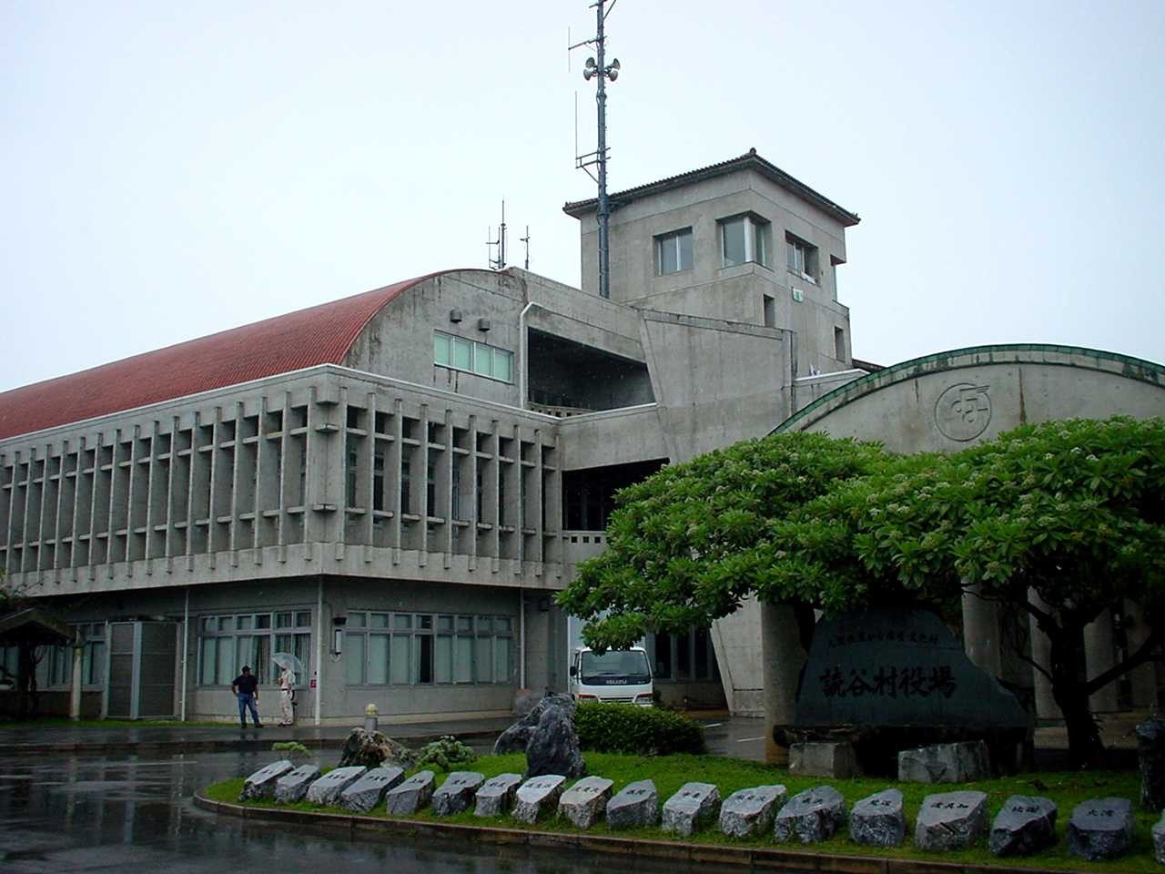 Yomitan Village Office in Okinawa, Japan